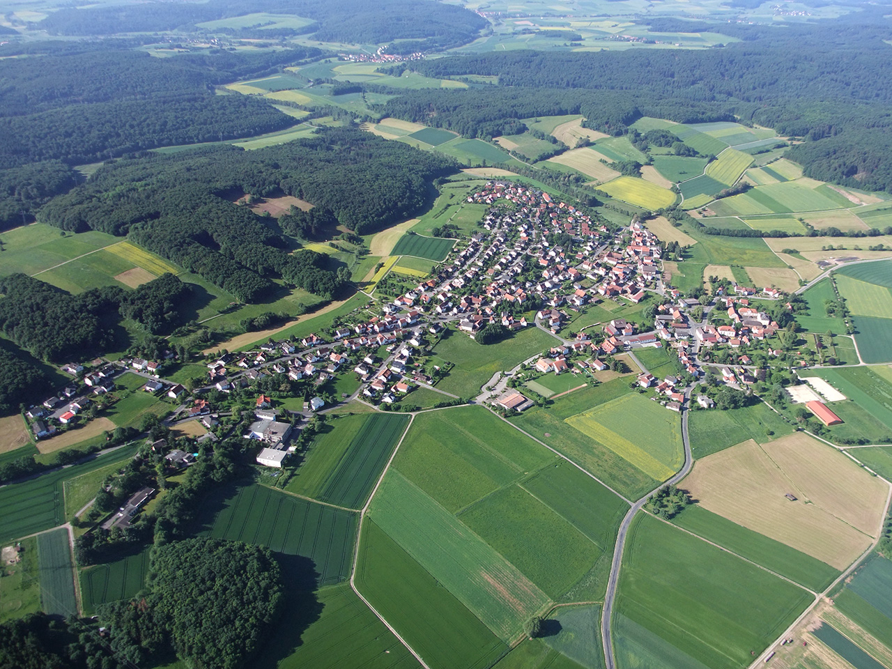 Aerial photograph of Marburg-Elnhausen, Germany